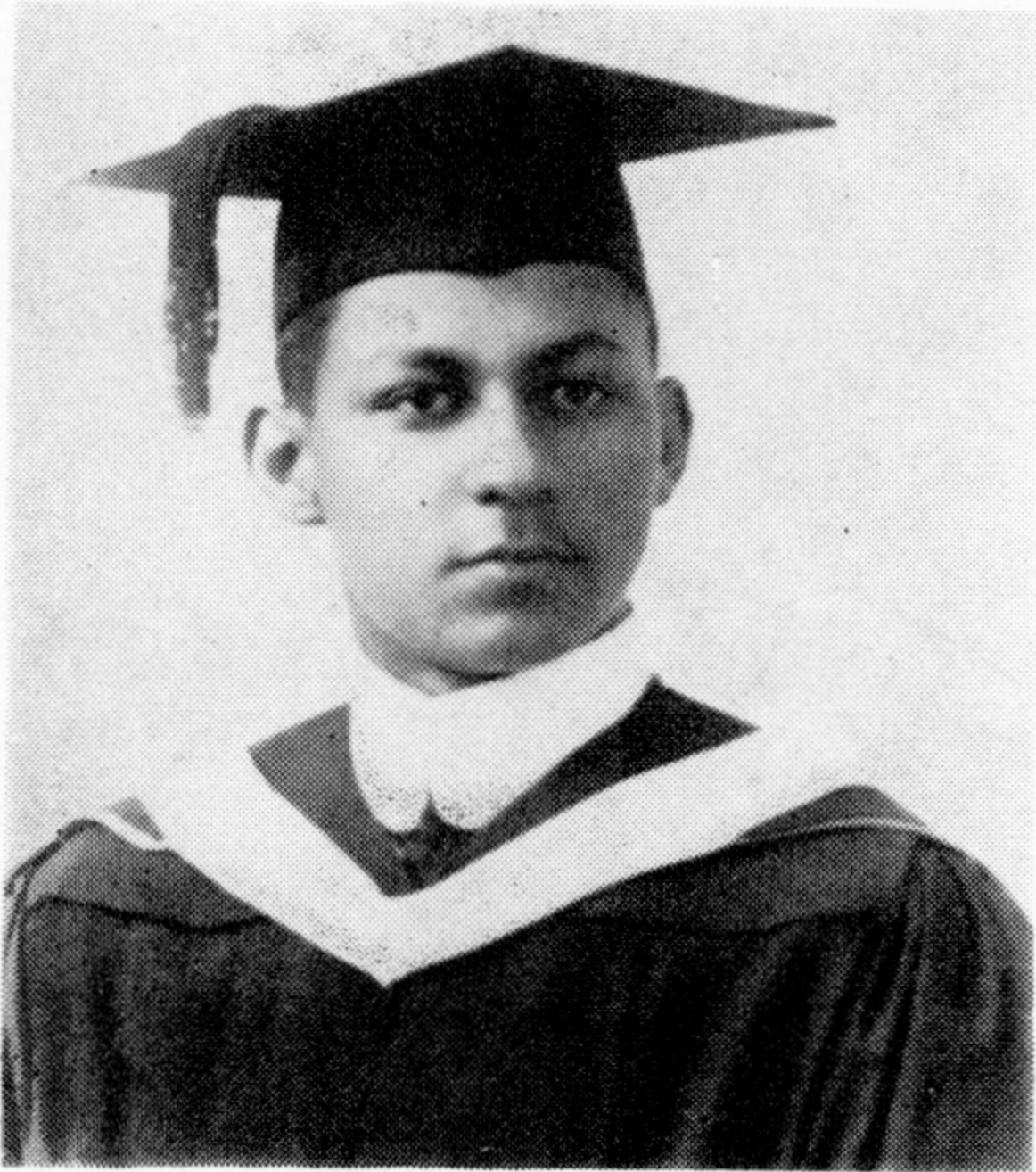 WWI veteran and doctor Charles H. Garvin when he graduated from collage and was found in an article published in the 1960s from the Journal of National Medical Association.